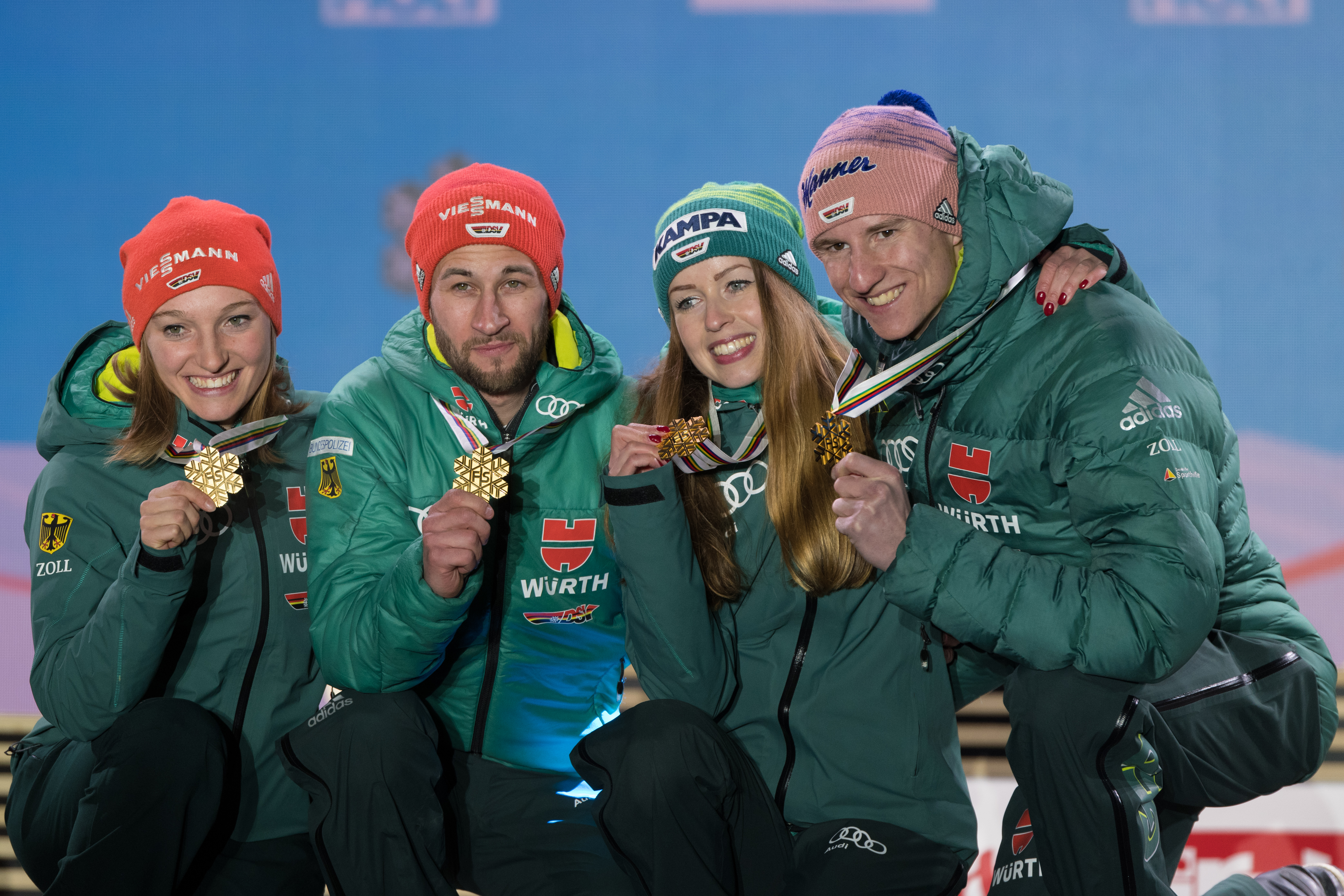 FIS Nordic World Ski Championships Seefeld 2019 - Medal Ceremony at the Medal Plaza. Picture shows Team Germany with Katharina Althaus (GER), Markus Eisenbichler (GER), Juliane Seyfarth (GER) and Karl Geiger (GER).